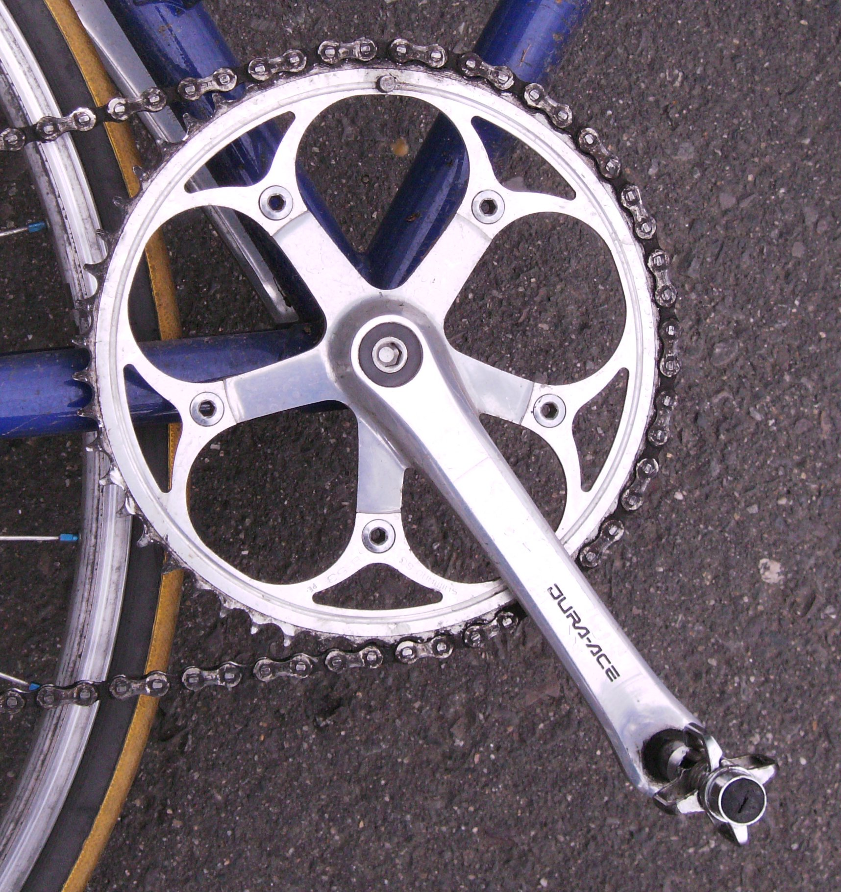 Dura Ace crankset